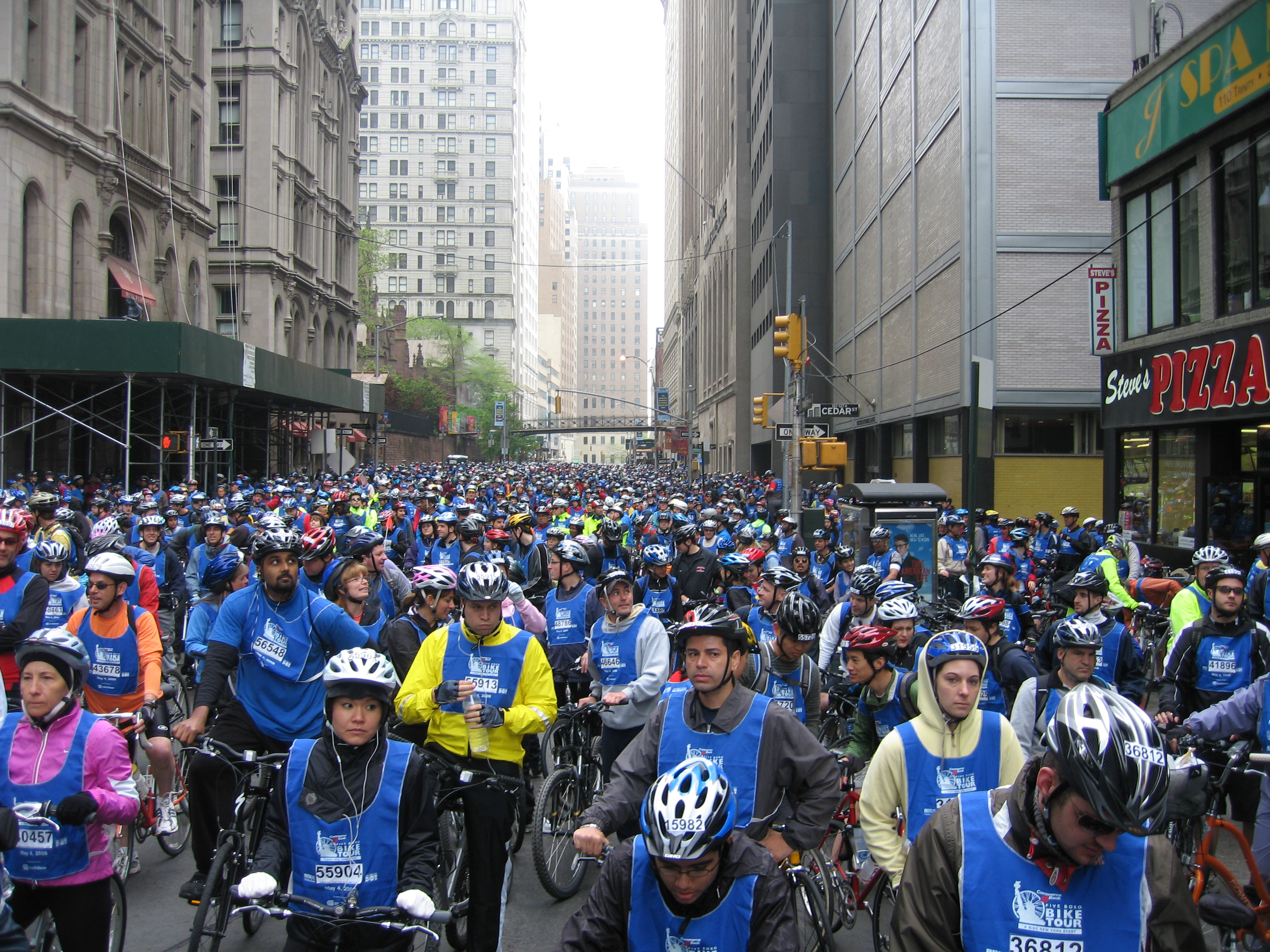 Five Boro Bike tour 2008. Photo was taken at the Starting point at the World Trade Center Site. New York City